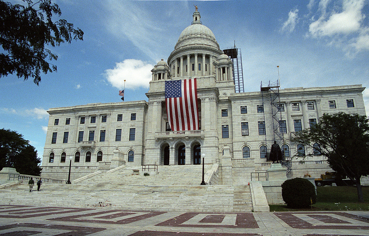 Rhode Island State House, Providence RI RI State House, the day after a candlelight vigil for the victims of the 9/11 attacks.